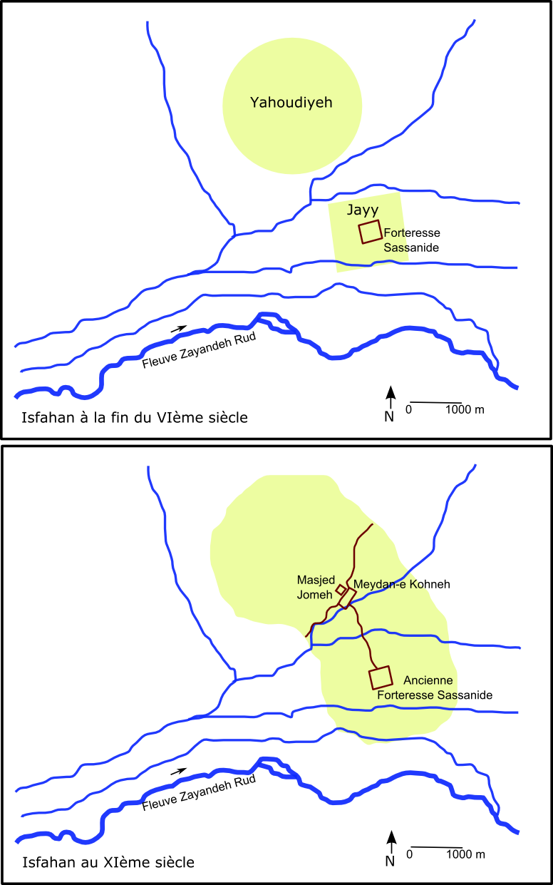 Scheme of the town of Isfahan, Iran during the 6th and 11th century. french language